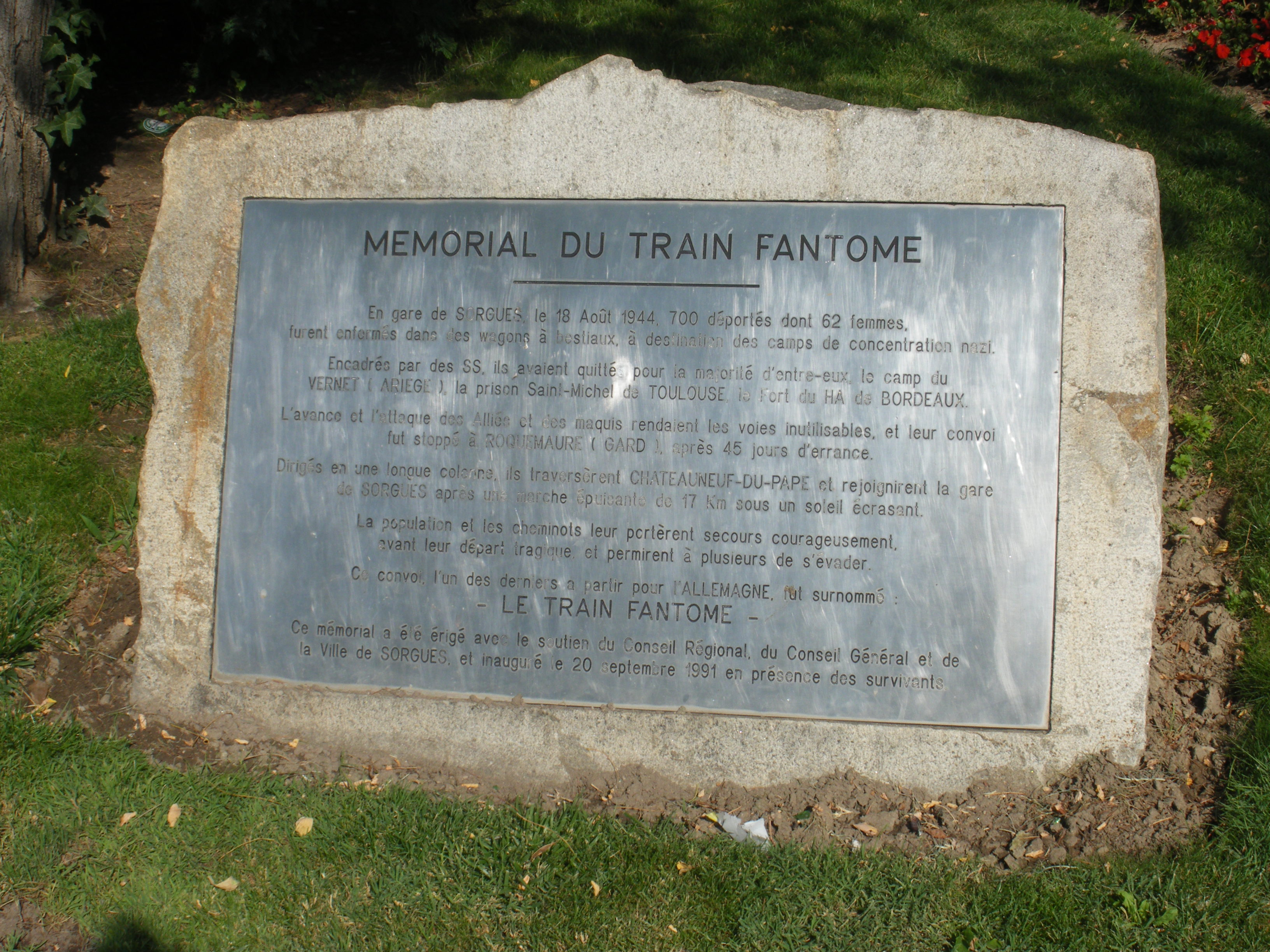 Monument in memory of the 700 deportees of the " Fantôme" train, which passed by Sorgues on August 18, 1944 (Vaucluse, France).